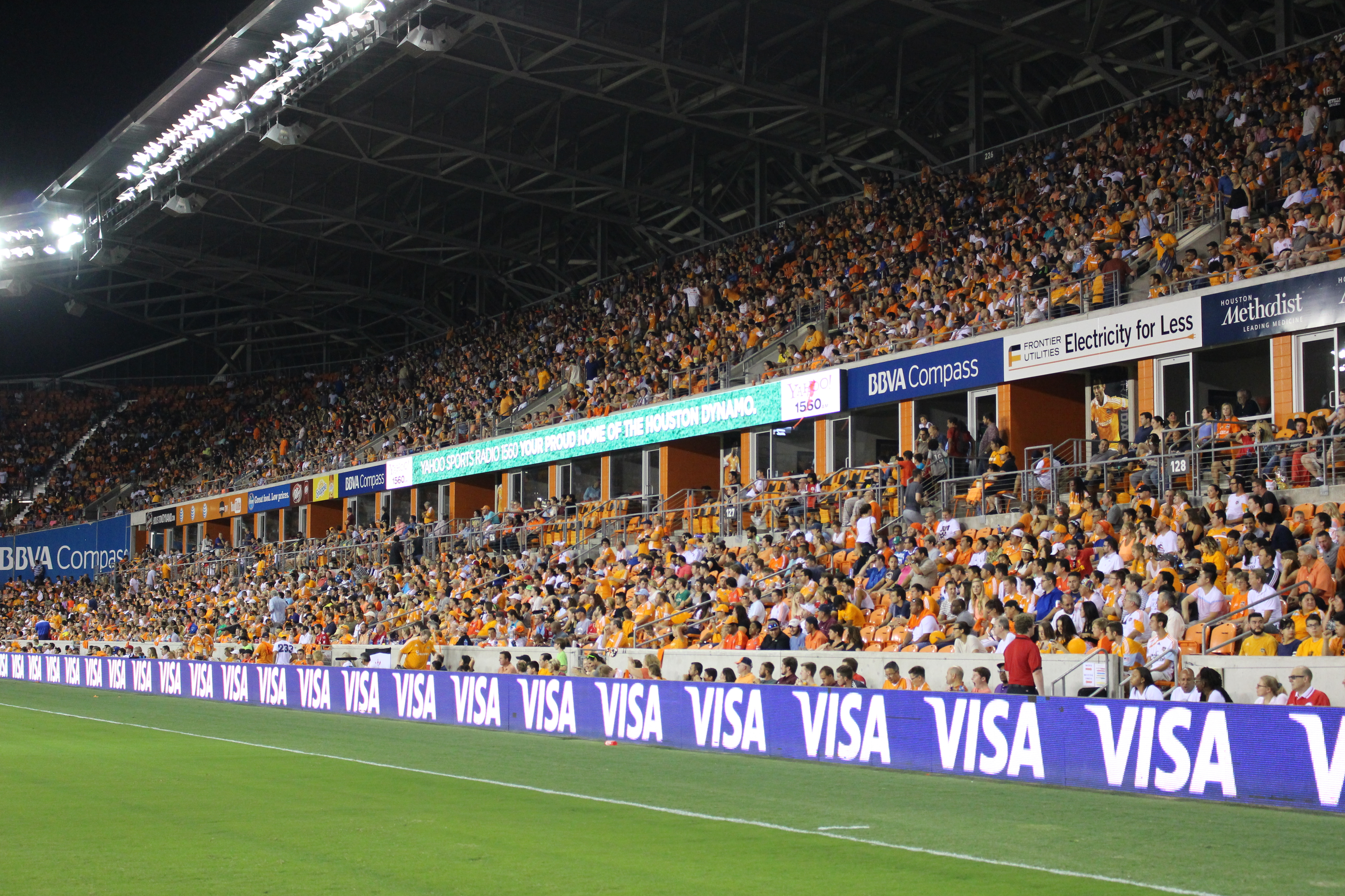 Houston Dynamo vs. Los Angeles Galaxy